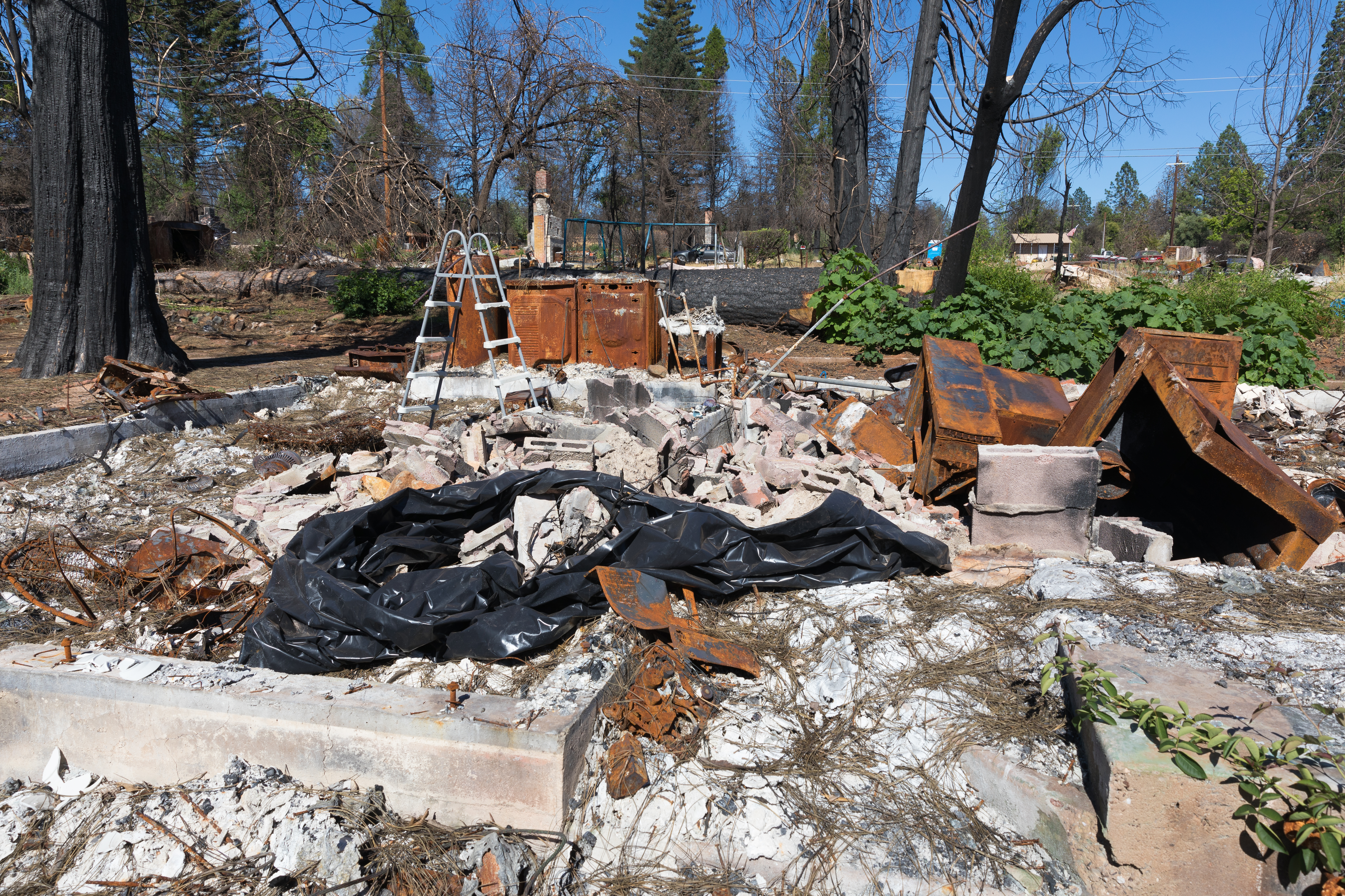 Burnt down house in Paradise, California, eight months after the devastating Camp Fire (July 2019)